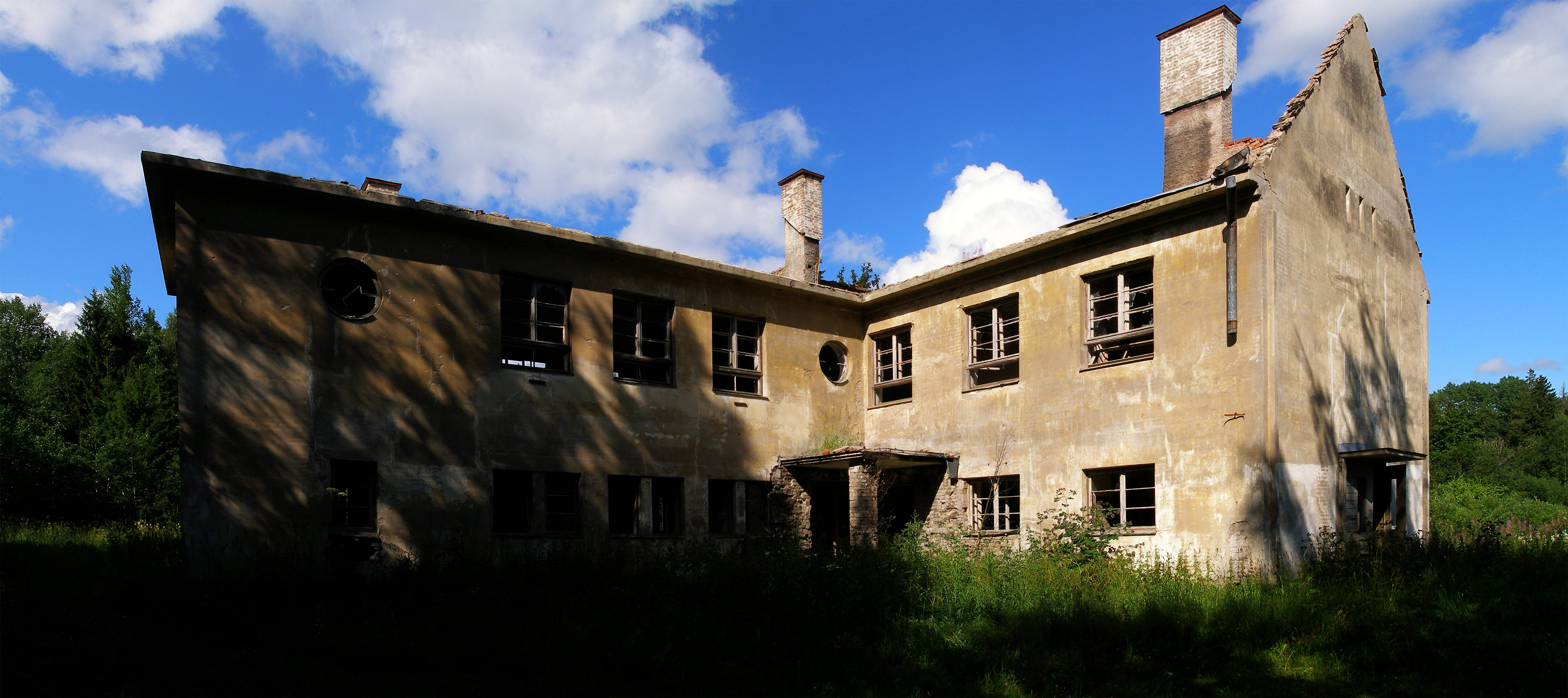 A derelict schoolhouse in Peressaare, Ida-Virumaa, Estonia.